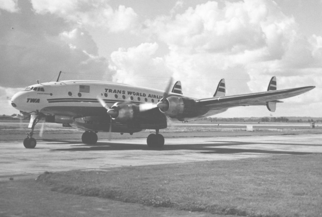 Lockheed L-749A Constellation N6022C "Star of Virginia" of TWA at London (Heathrow) Airport with under-fuselage "Speedpack" freight container